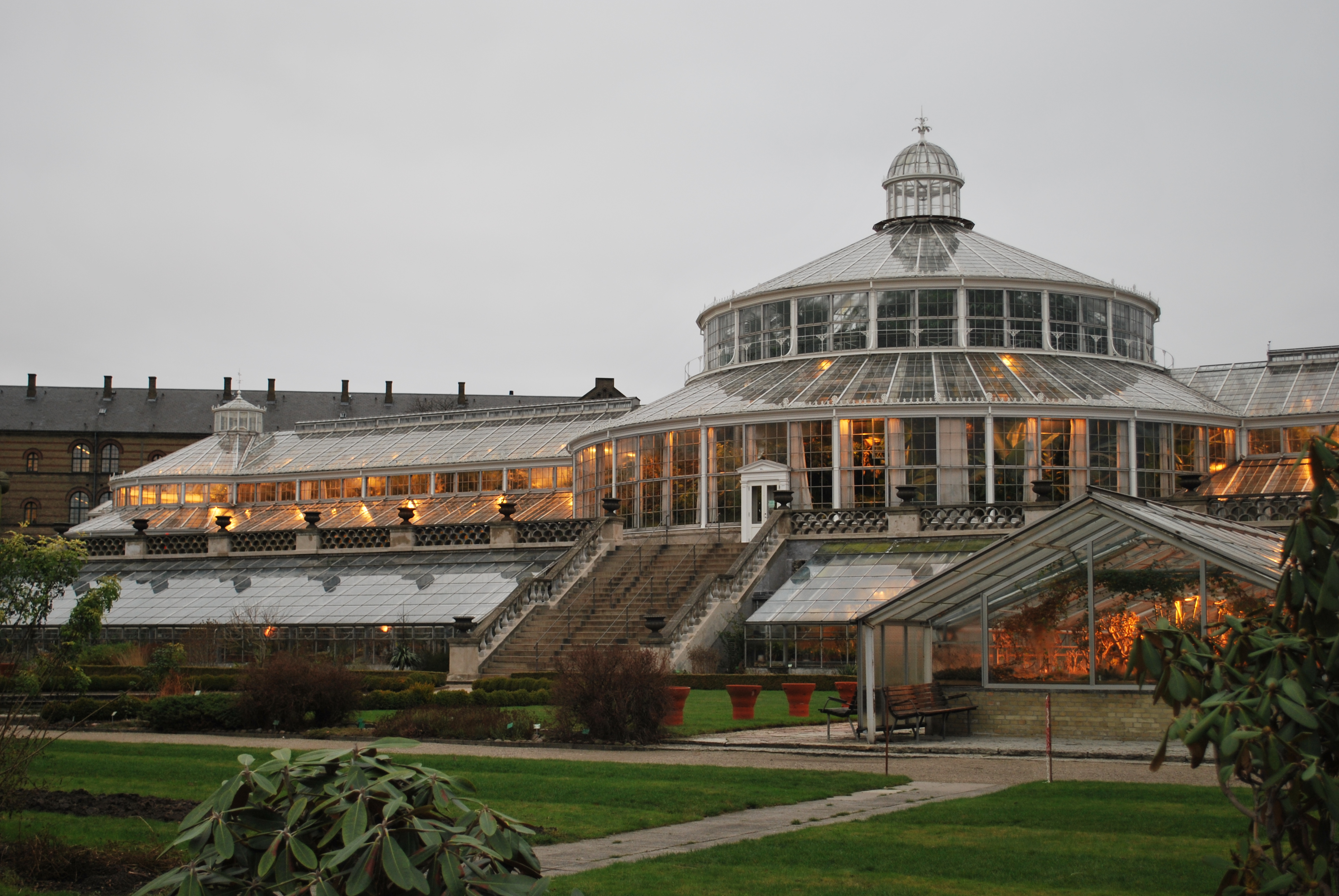 Palmehuset (The Palm House), Botanical Garden, Copenhagen